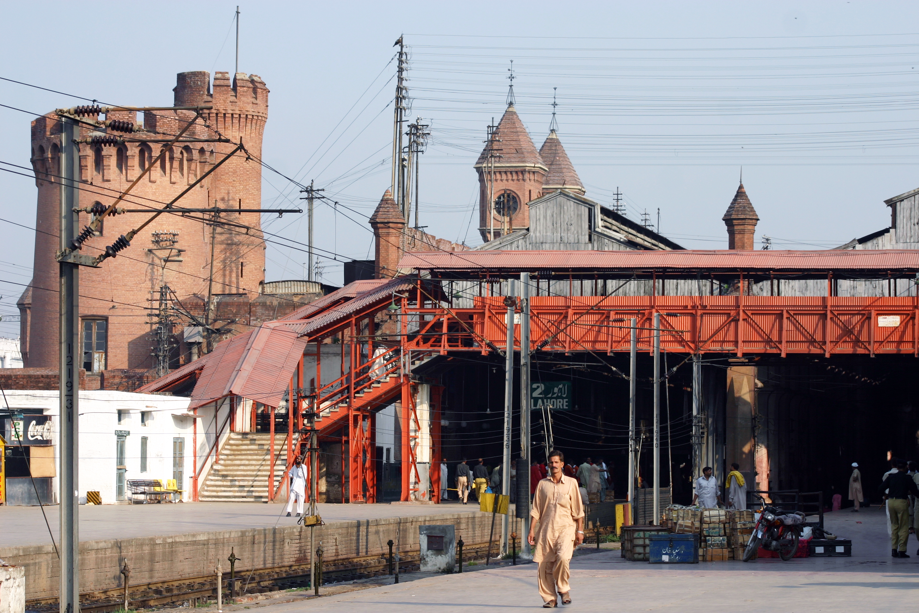 Lahore Junction railway station This is a photo of a monument in Pakistan identified as the PB-P-80